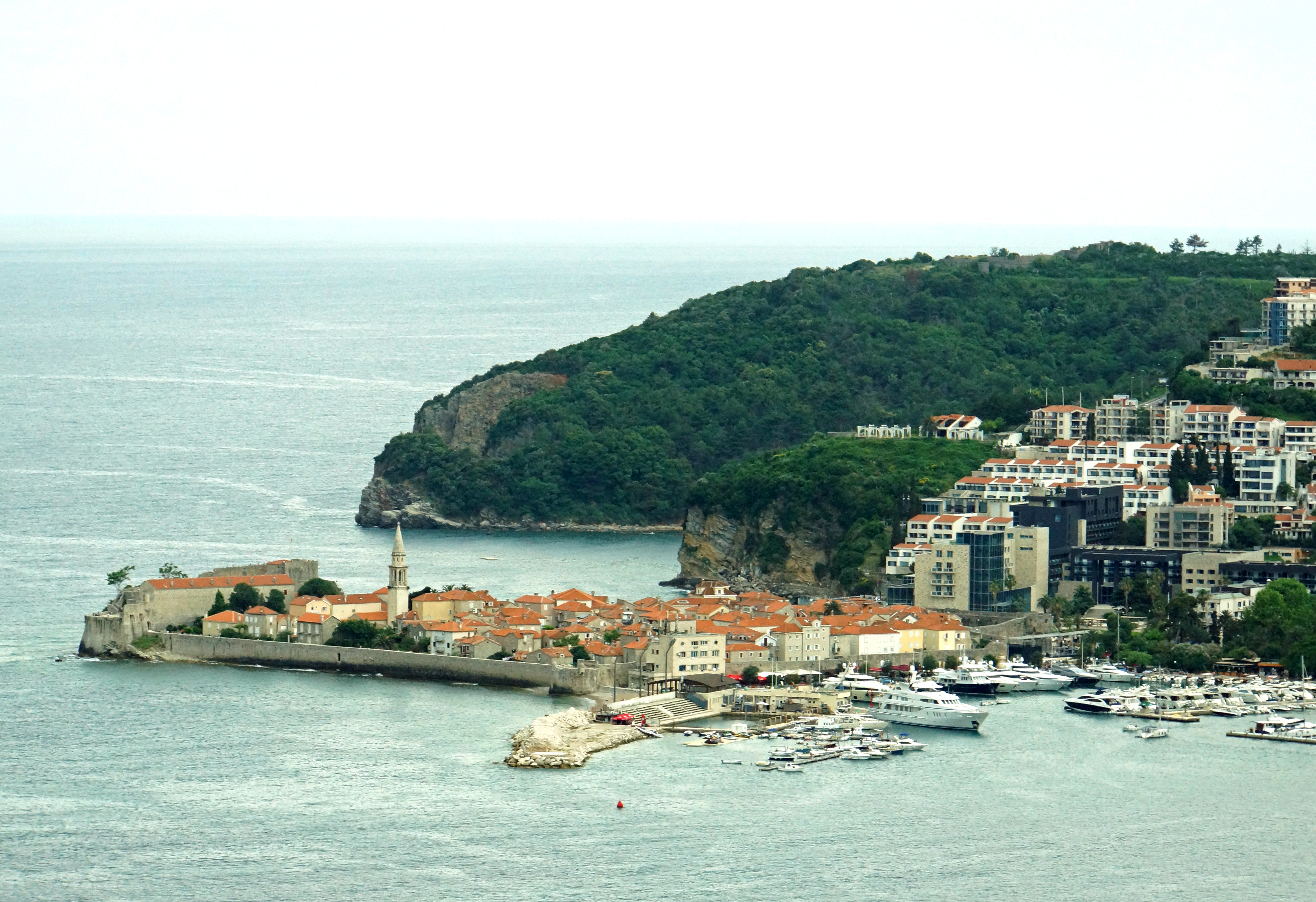 PLEASE,NO invitations or self promotion in your comments, THEY WILL BE DELETED. My photos are FREE for anyone to use, just give me credit and it would be nice if you let me know, thanks - NONE OF MY PICTURES ARE HDR. Another bus shot. Budva is on the central part of Montenegrin coast, called "Budvanska Rivijera". It has developed around a small peninsula, on which the old town is situated. It is by far most visited destination in Montenegro.